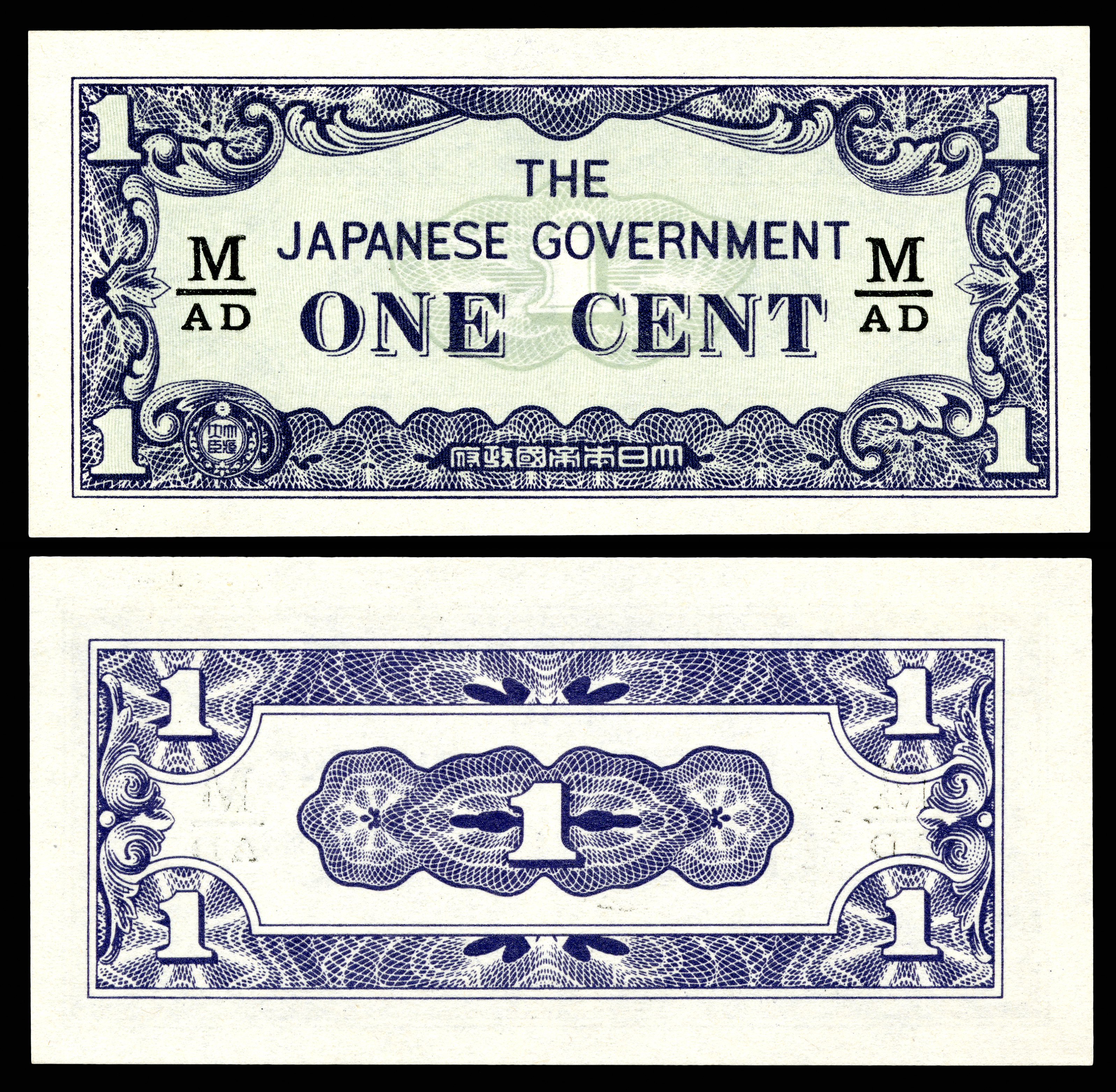 Malaya-Japanese Occupation-One Cent ND (1942)The Japanese government-issued dollar in Malaya and Borneo, part of the Japanese invasion money of World War II, was issued between 1942 and 1945 by the occupying Japanese government.